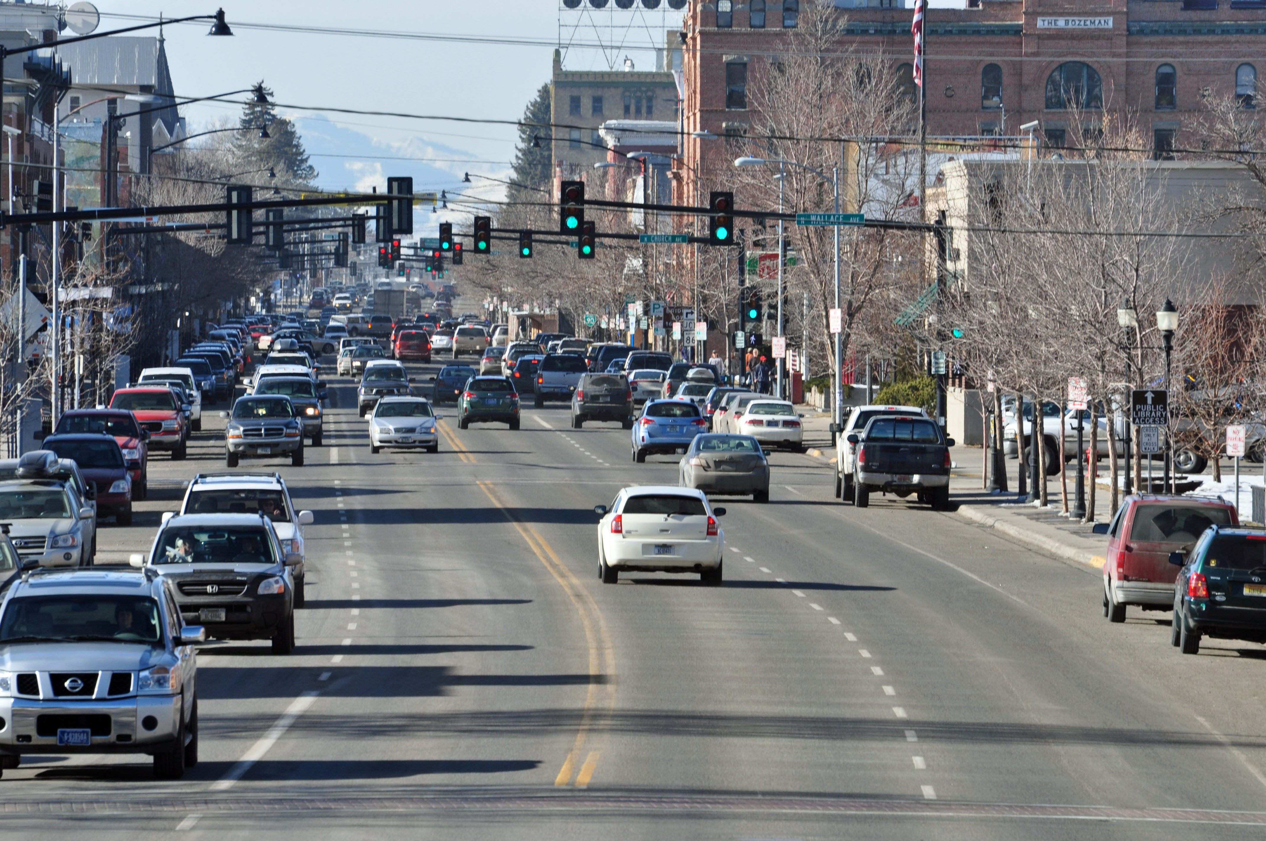 Bozeman, Montana. Main Street East looking West, January 28, 2011